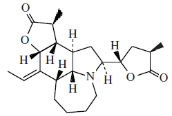 Tuberostemonin scheme